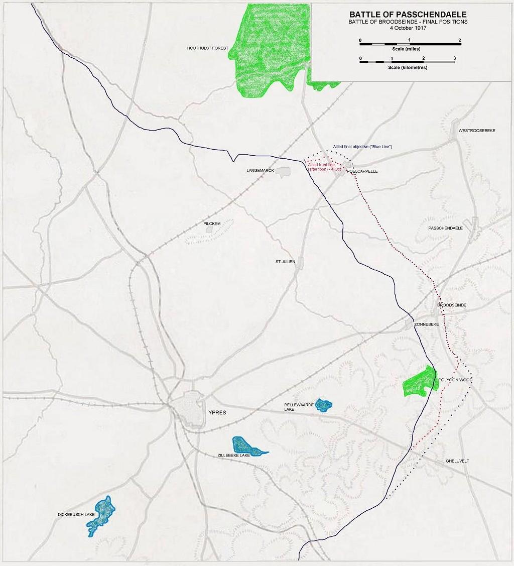 Map of Battle of Broodseinde, October 1917, showing results and pre-battle objectives. References - Terrain: Map of Ypres/Cambrai from Frontline: Map of Ypres from Australian War Memorial Website: Objectives: Pages 835 and 837, Volume IV - The Australian Imperial Force in France: 1917, C.E.W Bean, 1933 Results: Prior, Robin & Wilson, Trevor Passchendaele: The Untold Story, 1996 Yale University Press. ISBN: 0-300-06692-9